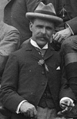 American geologist Robert T. Hill (1858-1941) at age 39. Cropped from a group photo taken at Jefferson Rock, Harpers Ferry, West Virginia.